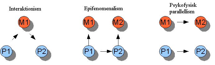 Different forms of dualism, in Swedish.